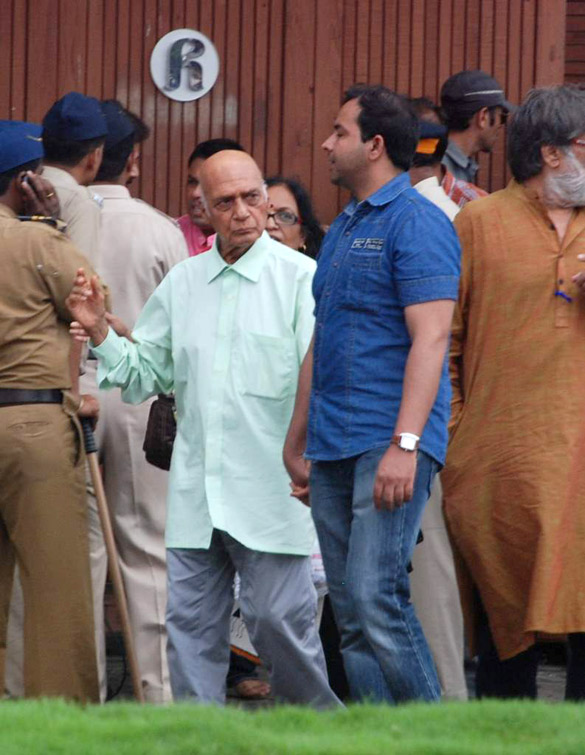 Khayyam visits Rajesh Khanna's home Aashirwad